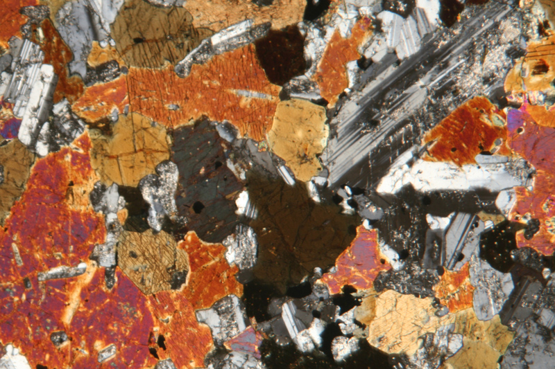 Siim Sepp, 2006 Igneous rock diorite. Photomicrograph with crossed polars. The width of the view is approximately 0,15 cm. Main minerals are plagioclase, hornblende and magnetite.